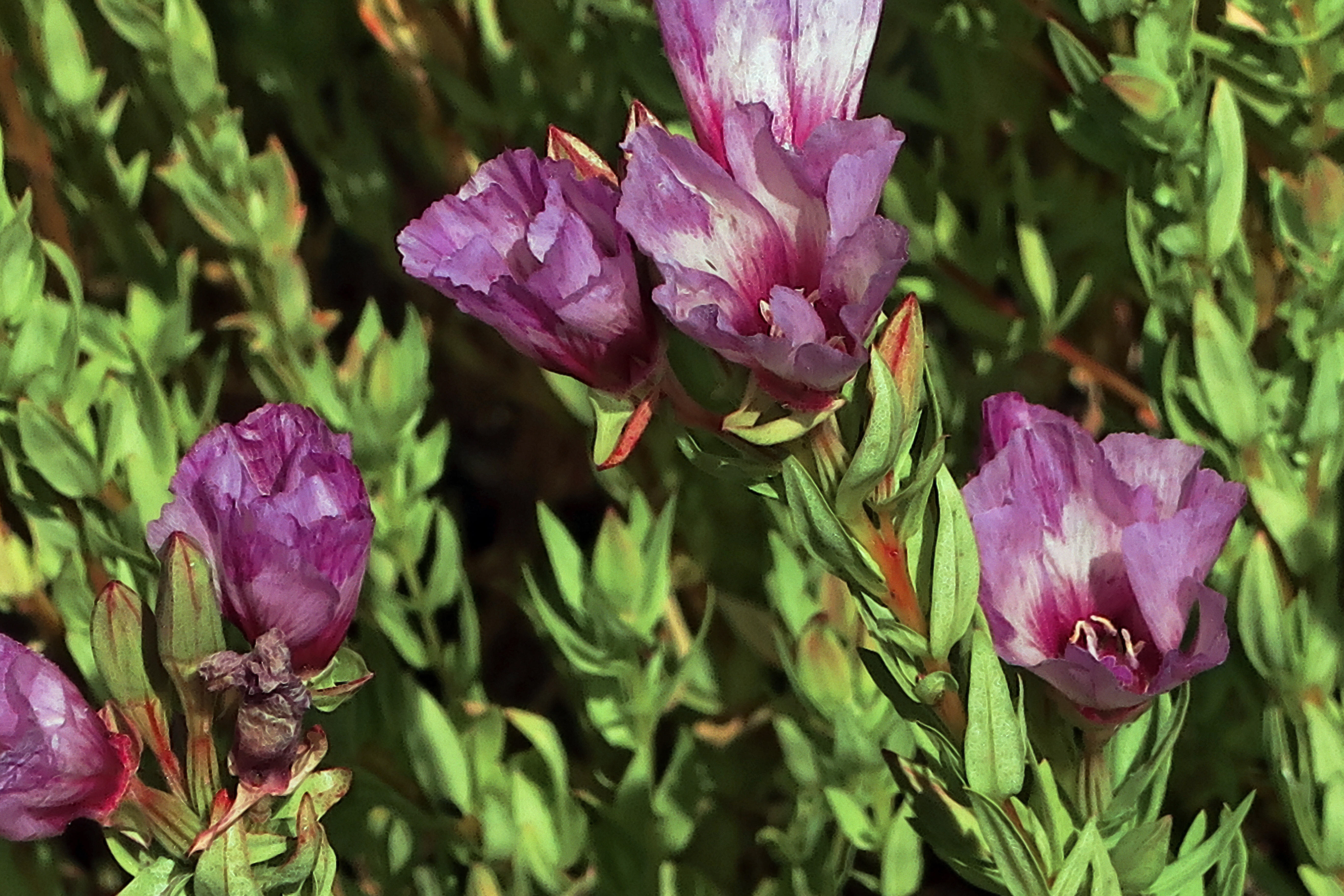 Clarkia imbricata—Vine Hill clarkia. The species is included in the CNPS Inventory of Rare and Endangered Plants on list 1B.1 (rare, threatened, or endangered in CA and elsewhere). It is also listed by the State of California as Endangered and by the Federal Government as 'Endangered '. To quote the CNPS Inventory entry : " Known from only two extant occurrences, one of which is introduced; a third, natural occurrence has been extirpated." Threatened by development and road maintenance." Nearly every photo I've seen depicts ta painterly quality for these plants. Photographed at Regional Parks Botanic Garden located in Tilden Regional Park near Berkeley, CA.